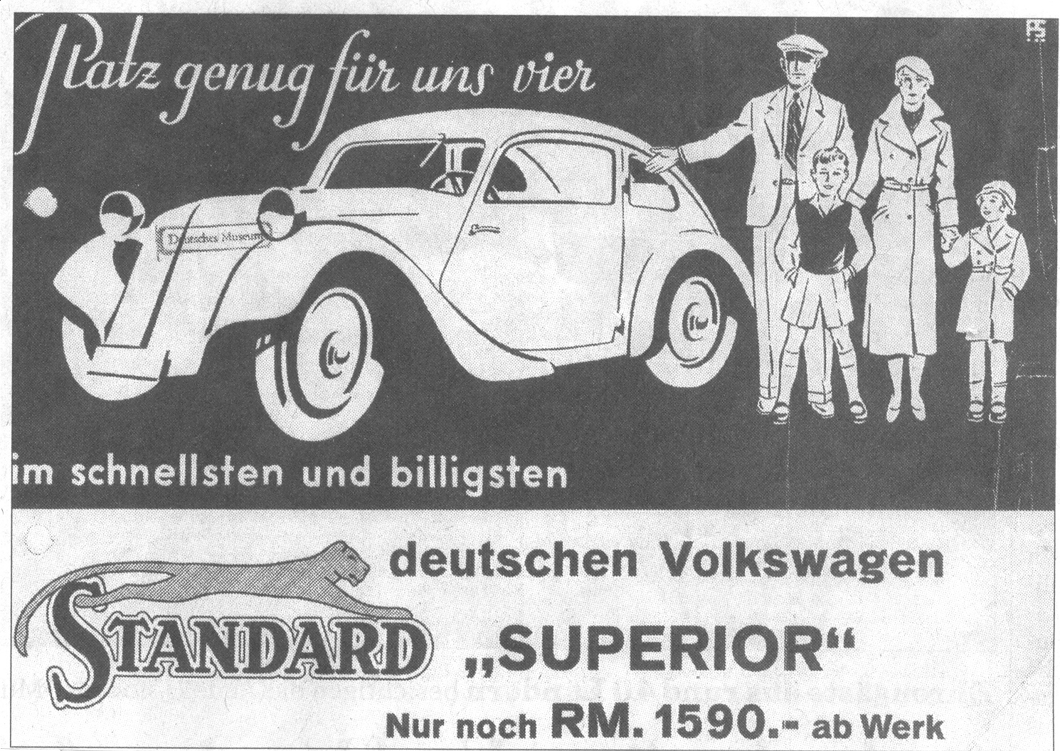 Model Standard Superior, newspaper ad fromm january 1933